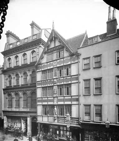 Crosby Hall, Bishopsgate, London. Courtesy of English Heritage.